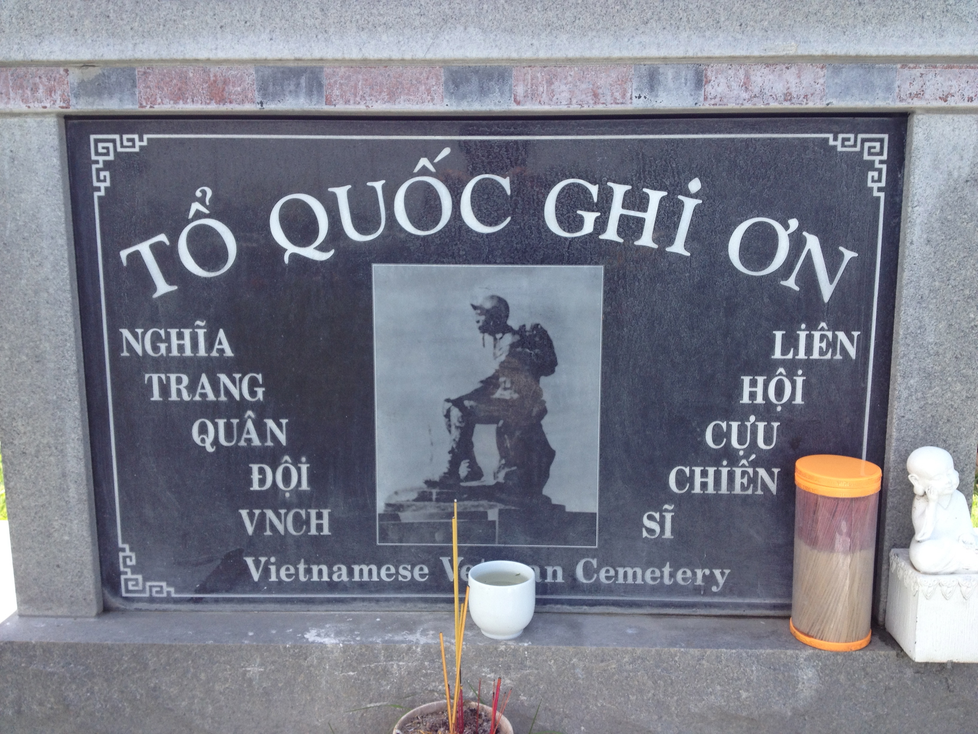 Stone plaque with photo of the "Thương tiếc" statue, originally, installed at the National Military Cemetery in Biên-hòa, then demolished after 1975 following the Fall of Saigon.